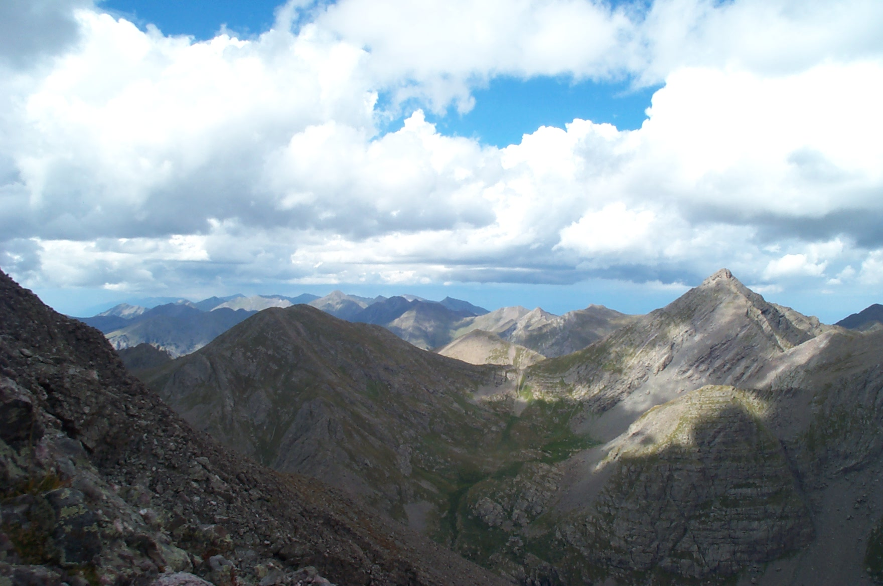 Mount Adams (right) and the northern Sangre de Cristo Range in Colorado, looking north from the north slope of Challenger Point near 13,800 feet (slope visible in the lower left).